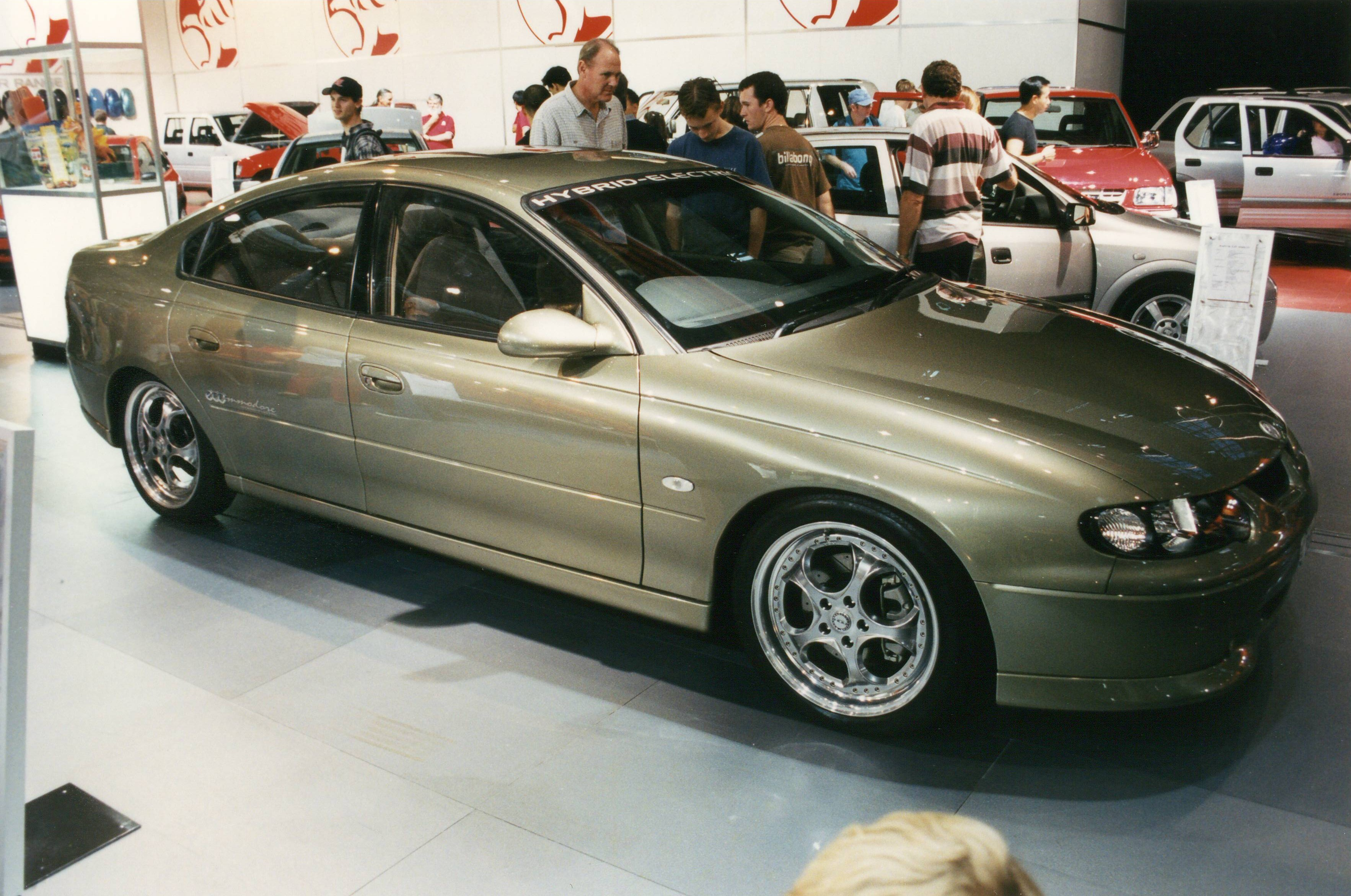 This image is a scan of a 35mm print taken at the 2000 Sydney Motor Show